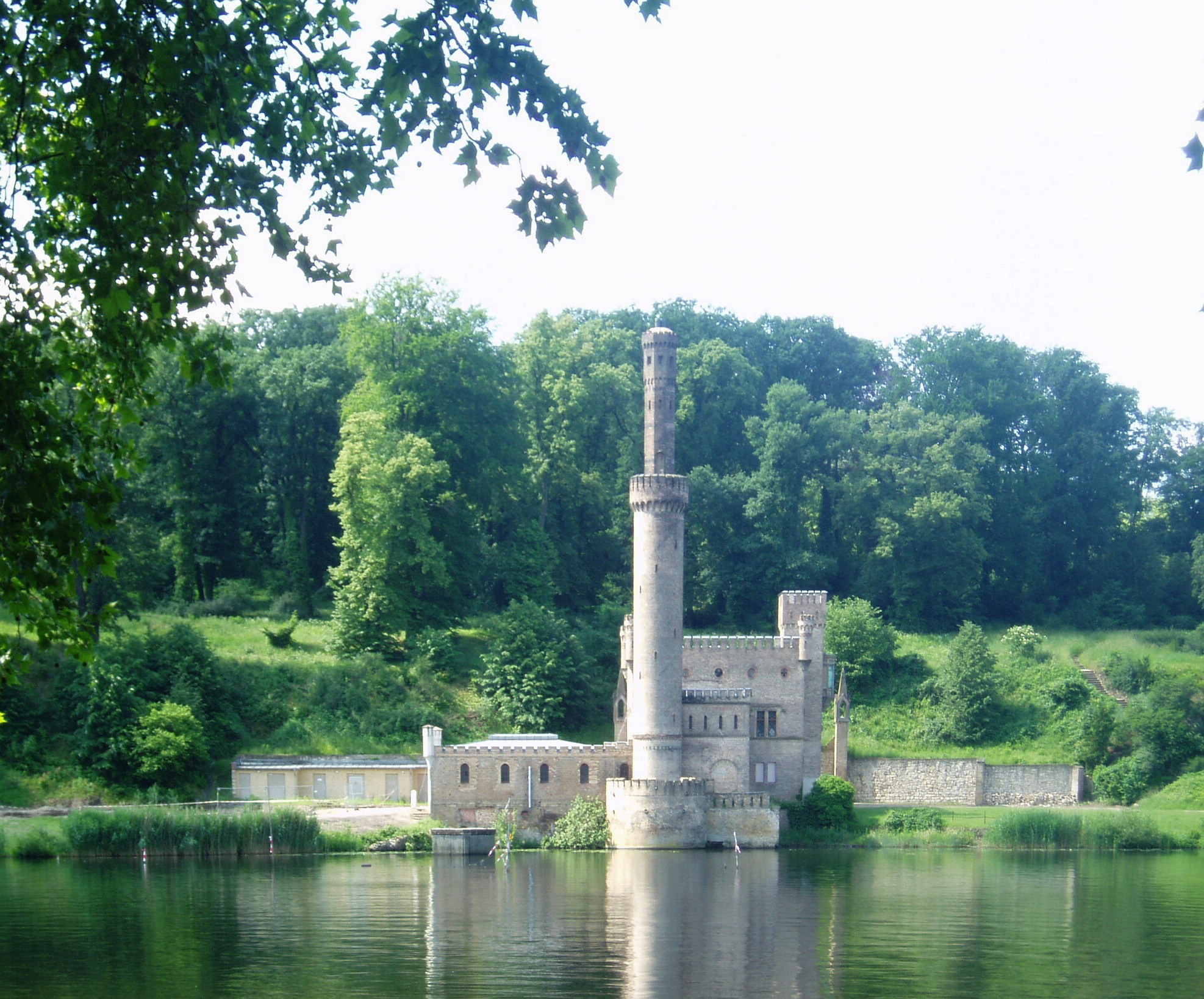 Steam engine house in the park Babelsberg, Potsdam, Germany